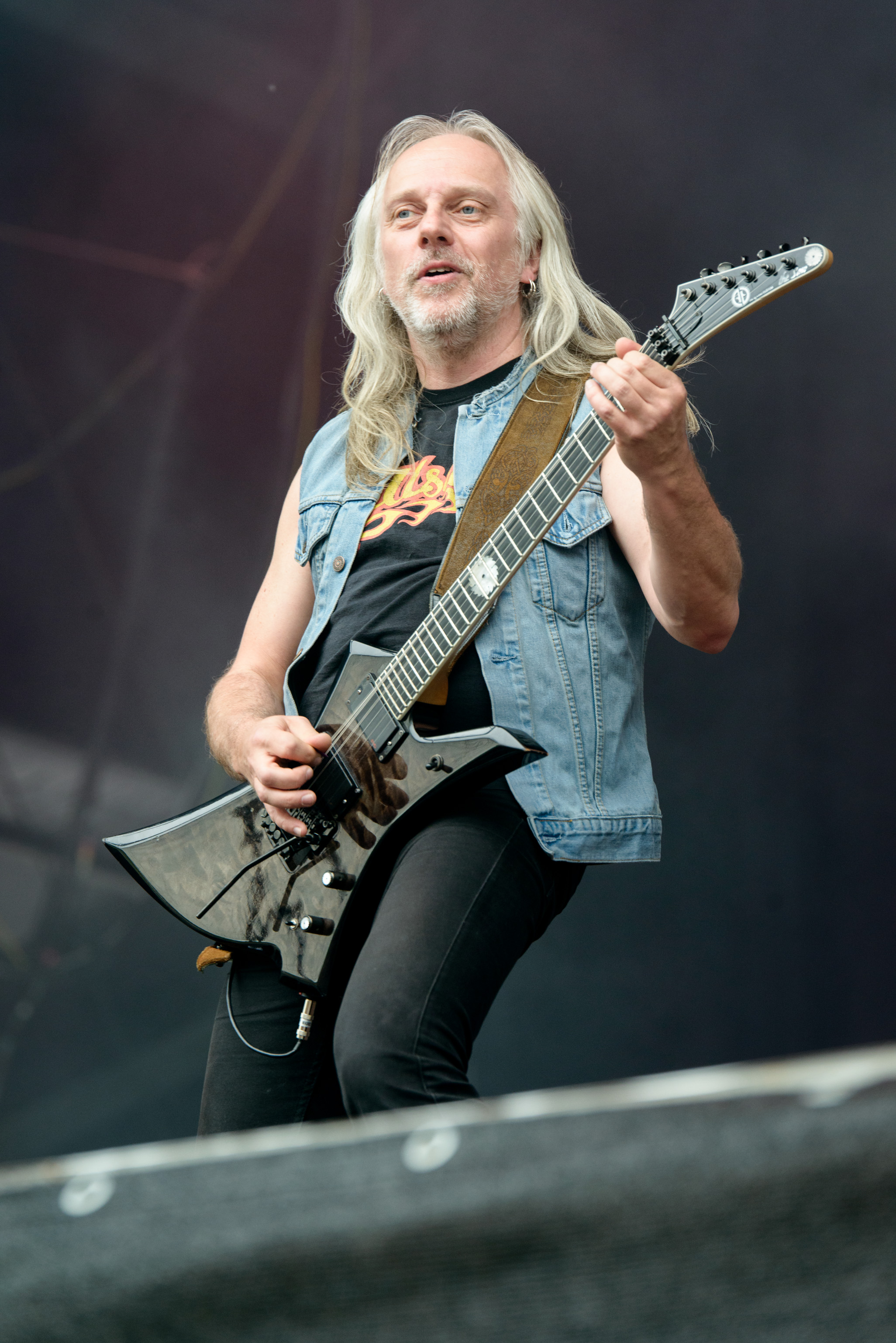 Sodom Live @ Rockavaria 2016